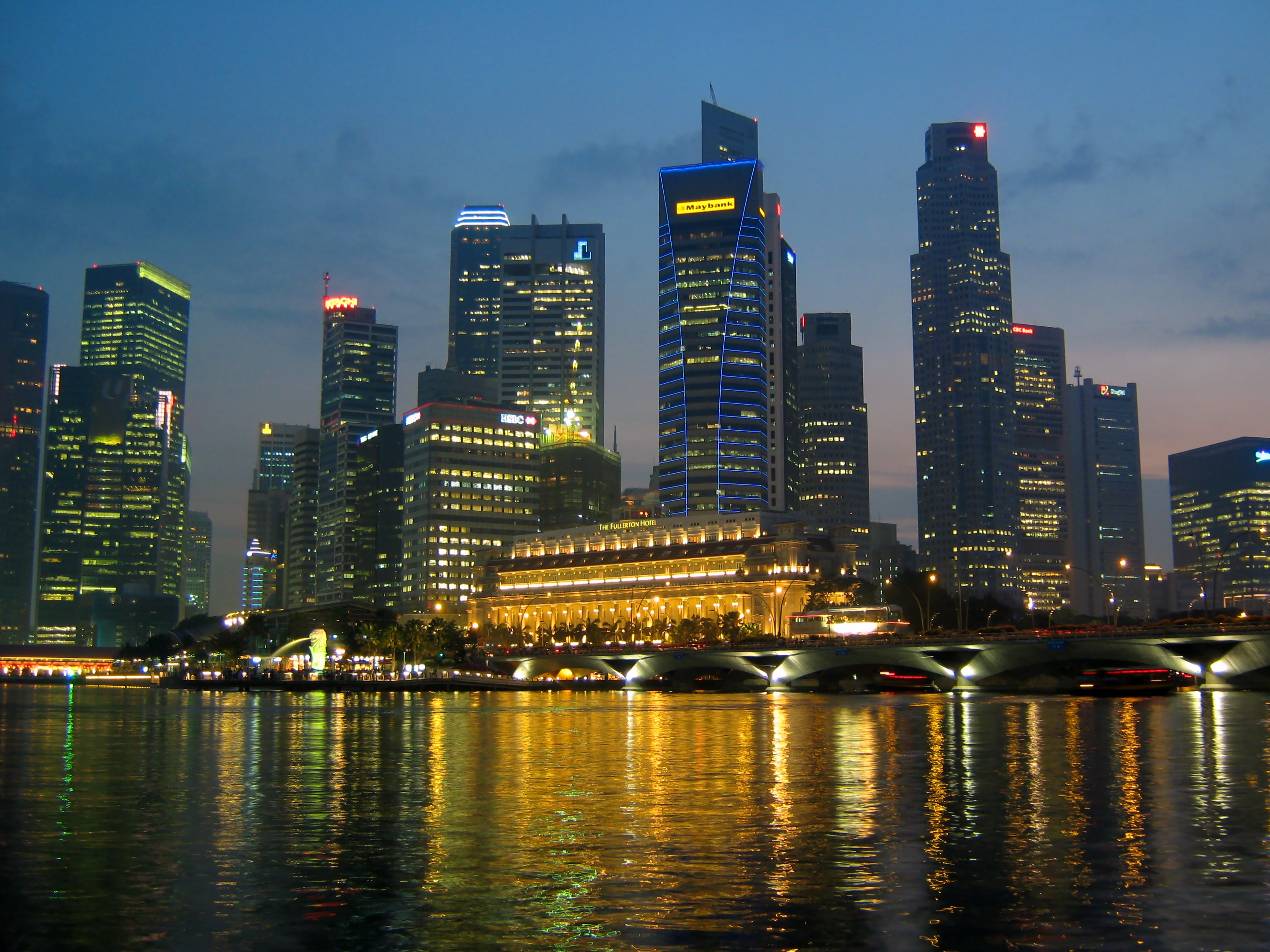 The skyline of the Central Business District of Singapore.